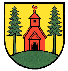 Coat of arms of Wörnersberg